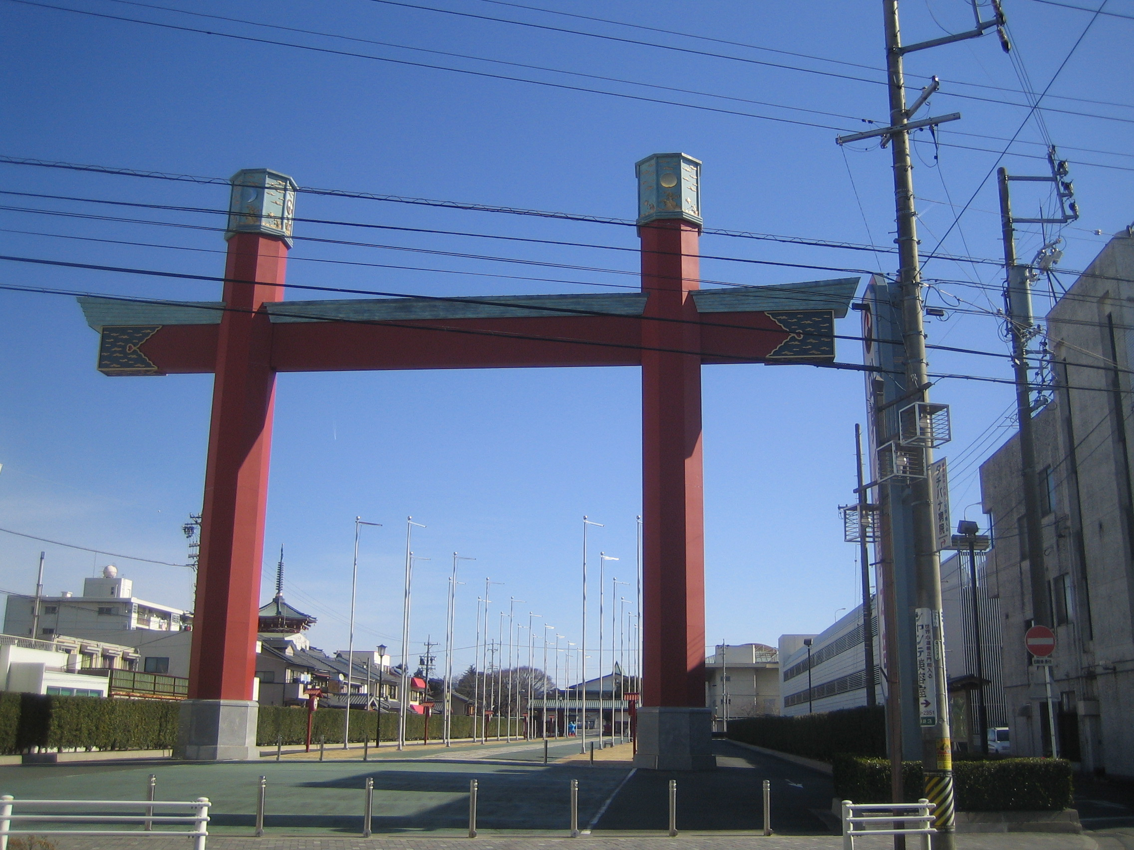 The headquarters of Sekai Shindokyo (世界心道教 Sekai Shindōkyō), located at Suwa, Toyokawa, Aichi, Japan